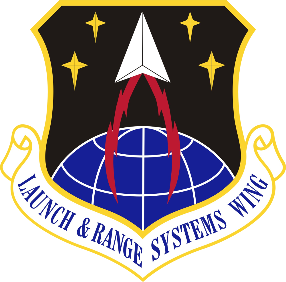 Emblem of the Launch Enterprise Directorate, a wing of the United States Air Force